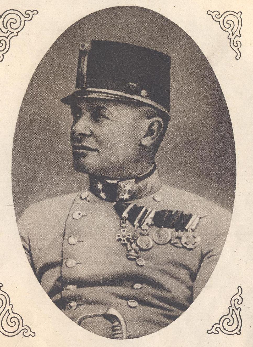 Hermann Kövess von Kövessháza. Rudolf Mosse, "Album de la Grande Guerre" №10, 1915